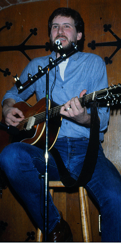 Jan Erik "Janne" Svensson performing 1975 at Napoleon, Stockholm, Sweden.